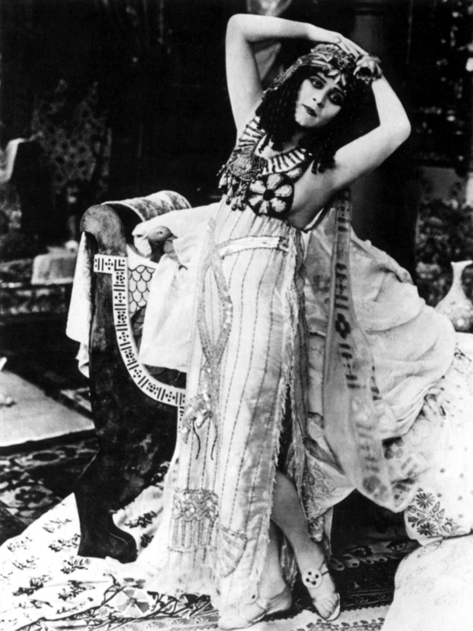 Theda Bara as Cleopatra (lost American film Cleopatra (1917))